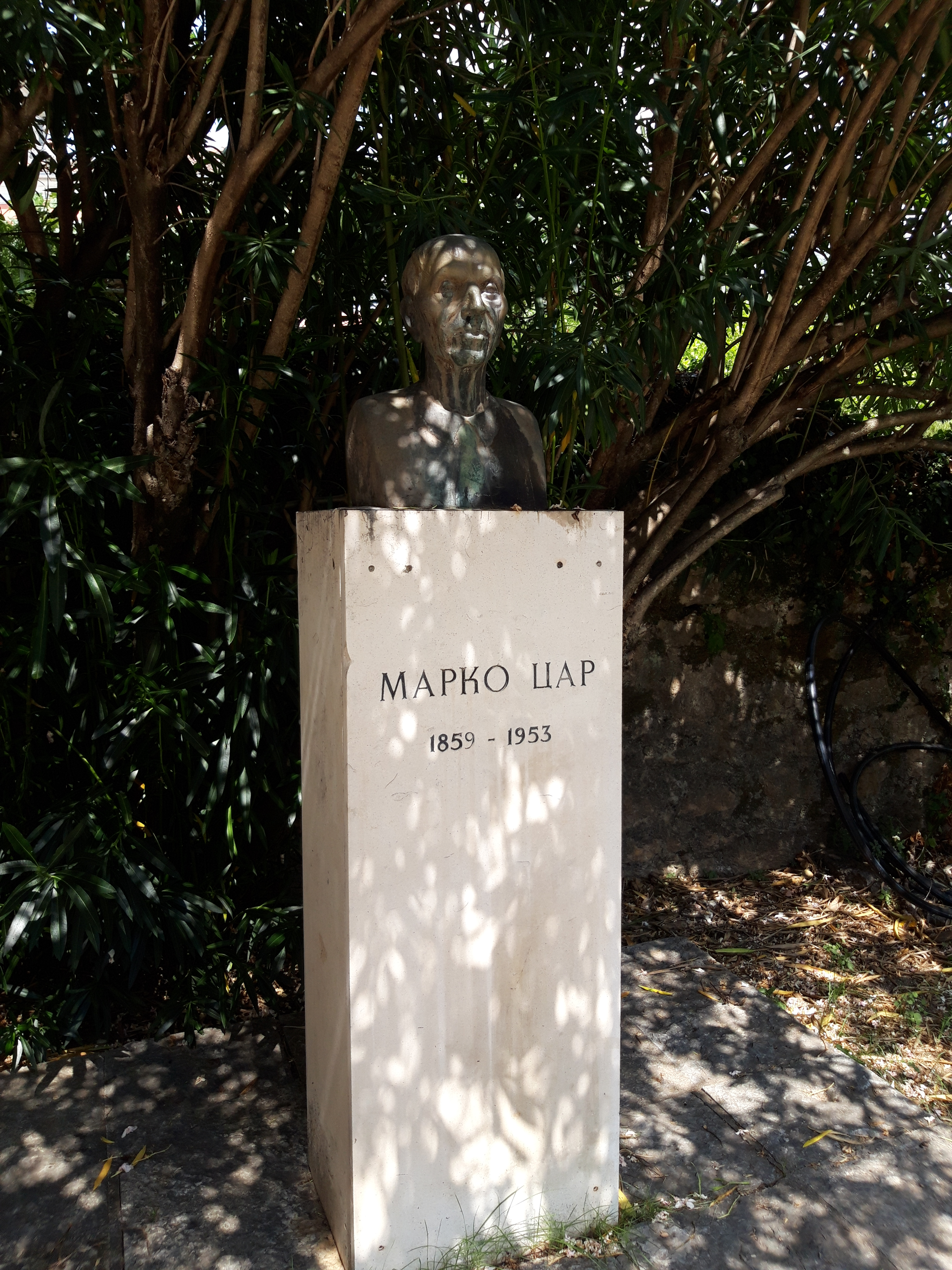 Bust of Marko Car in Herceg Novi